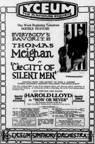 Newspaper advertisement for the American film The City of Silent Men (1921) with Thomas Meighan, on page 2 of the June 3, 1921 Duluth Herald.